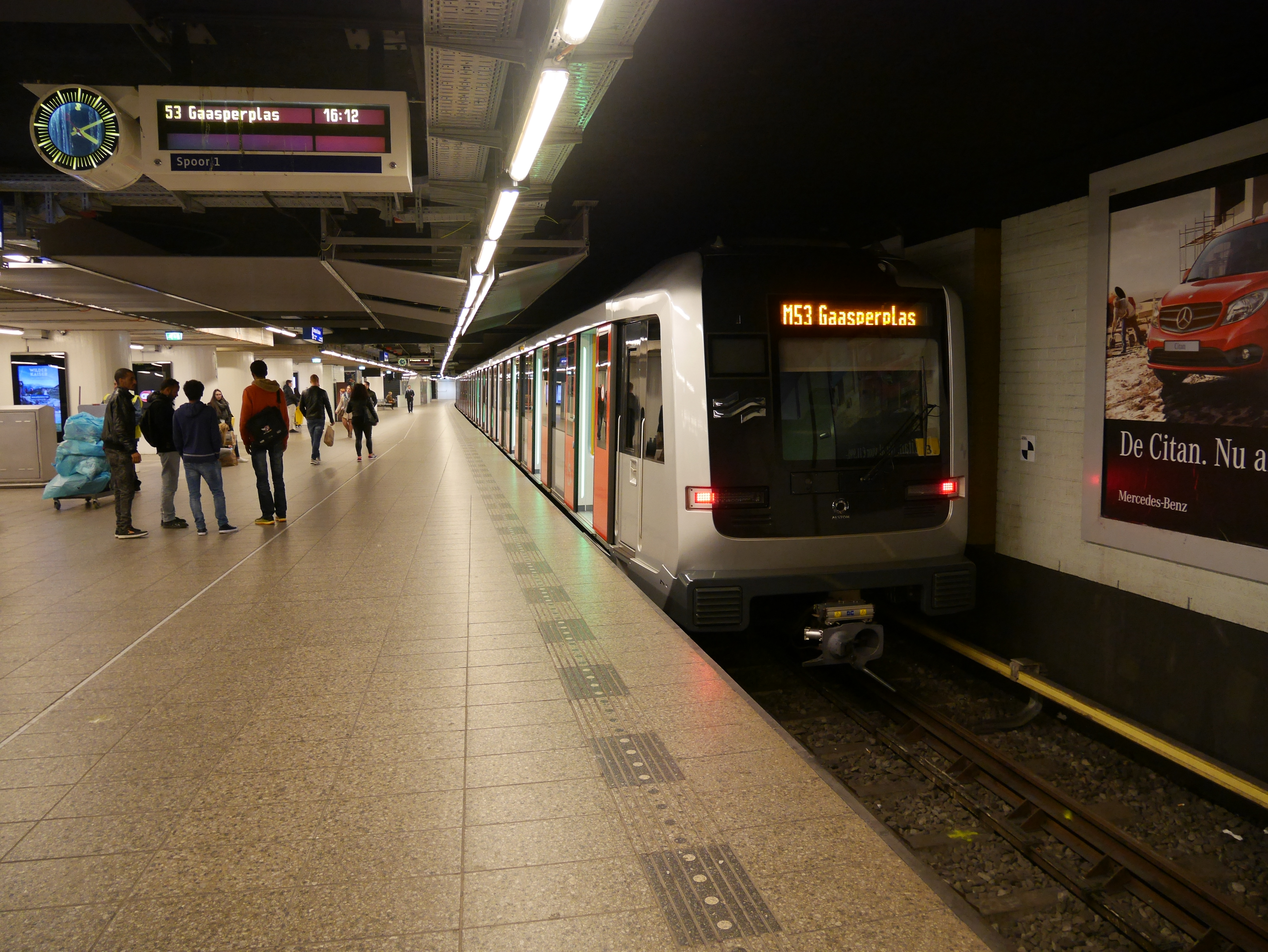 M5 metro as line 53 to Gaasperplas at Amsterdam Central station.